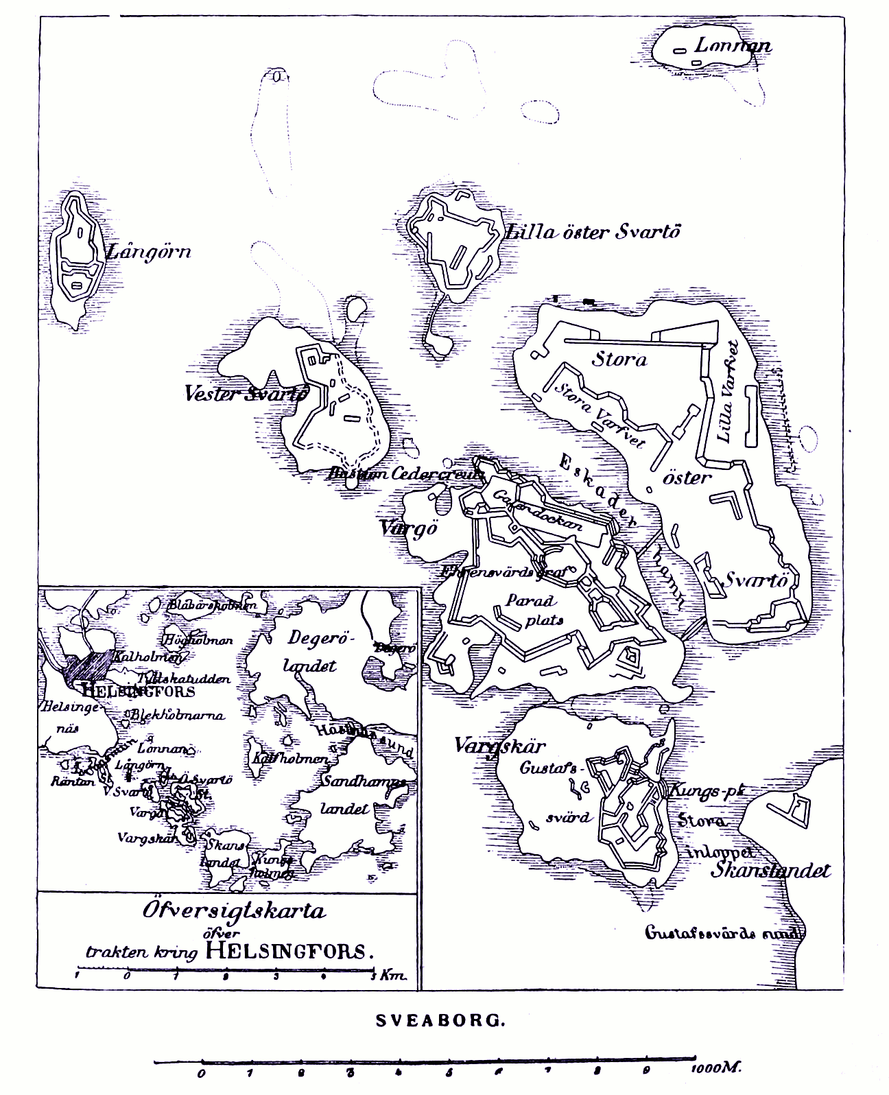 Map of Suomenlinna fortress near Helsinki, during the Finnish War